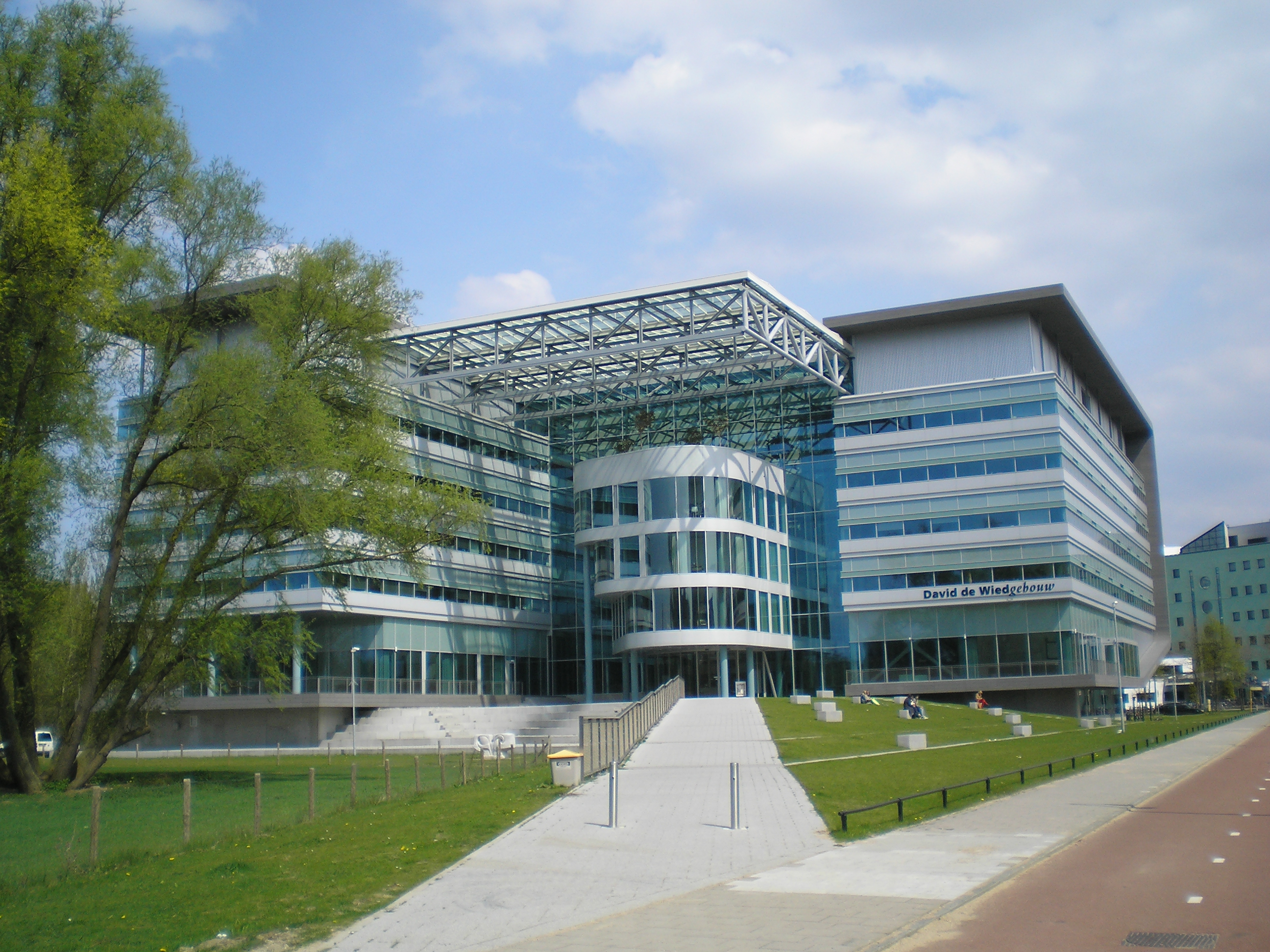 David de Wied-gebouw on the Leuvenlaan 4 in De Uithof in Utrecht in the Netherlands